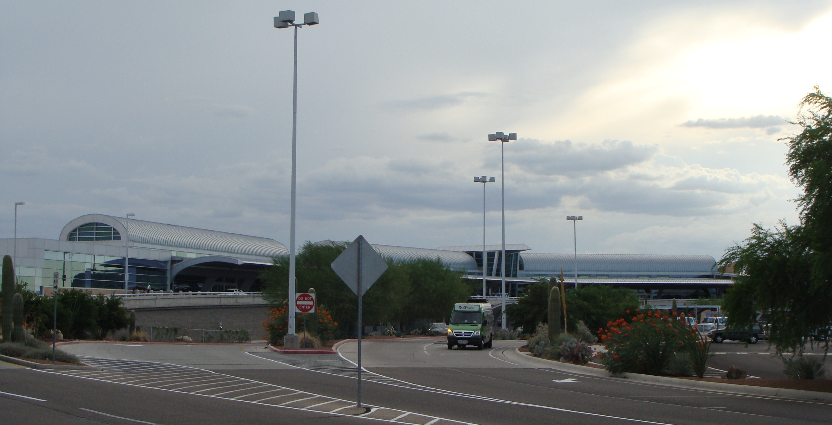 Tucson Int'l Airport main terminal entrance